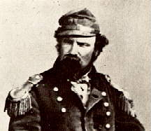 Joshua A. Norton (1819-1880), self-proclaimed Emperor of the United States and Protector of Mexico.